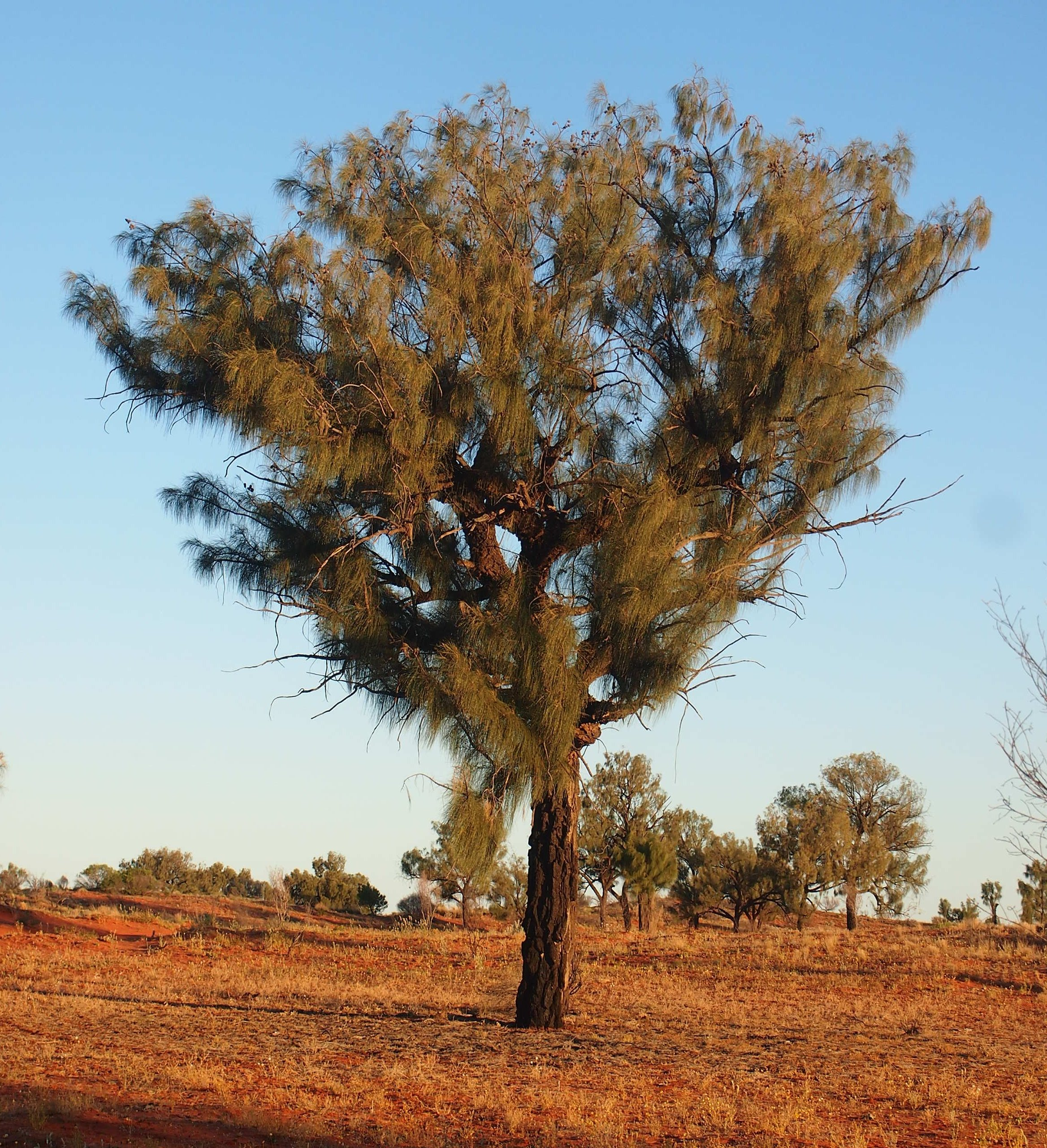 Allocasuarina decaisneana tree